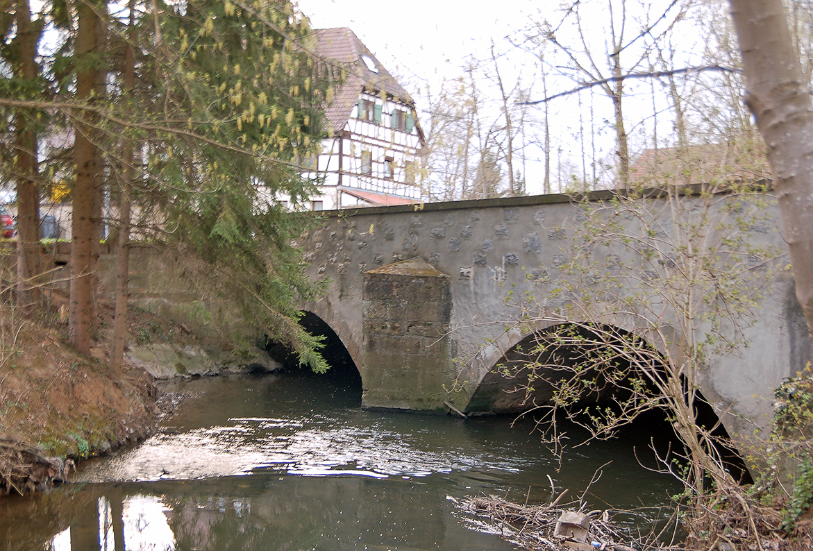 Bridge over River Glems (Markgröningen)